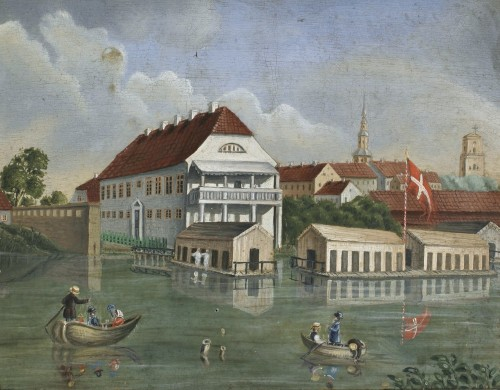 Rysensteens Badeanstalt with the separate sections for men and women at Rysensteen Bastion in Copenhagen, Denmark